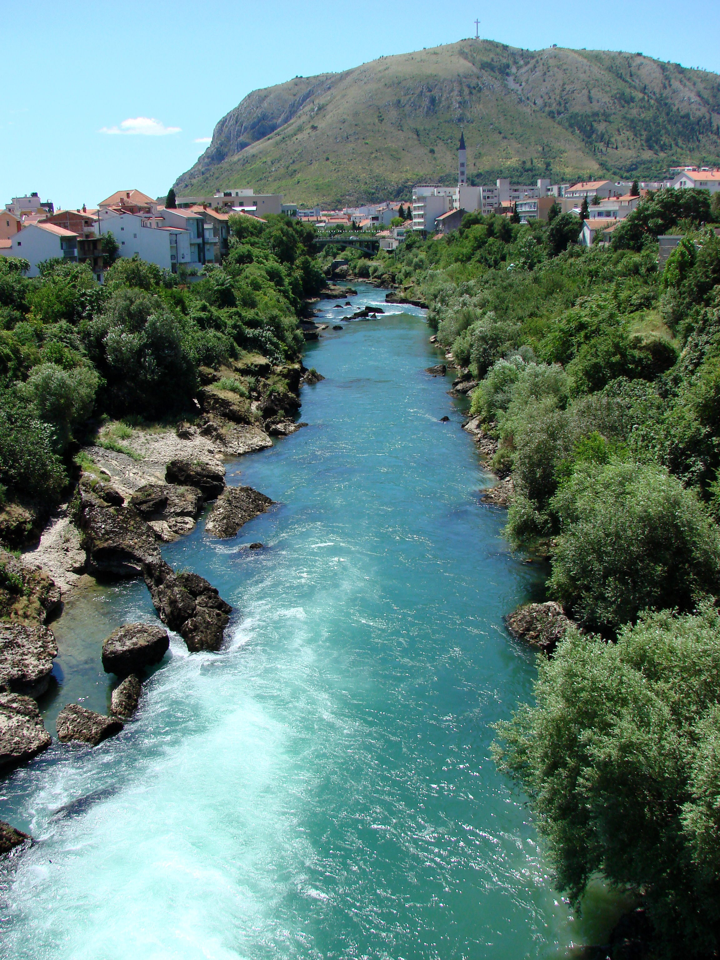 Mostar, Bosnia and Herzegovina. View down the Neretevo River. July 2007.